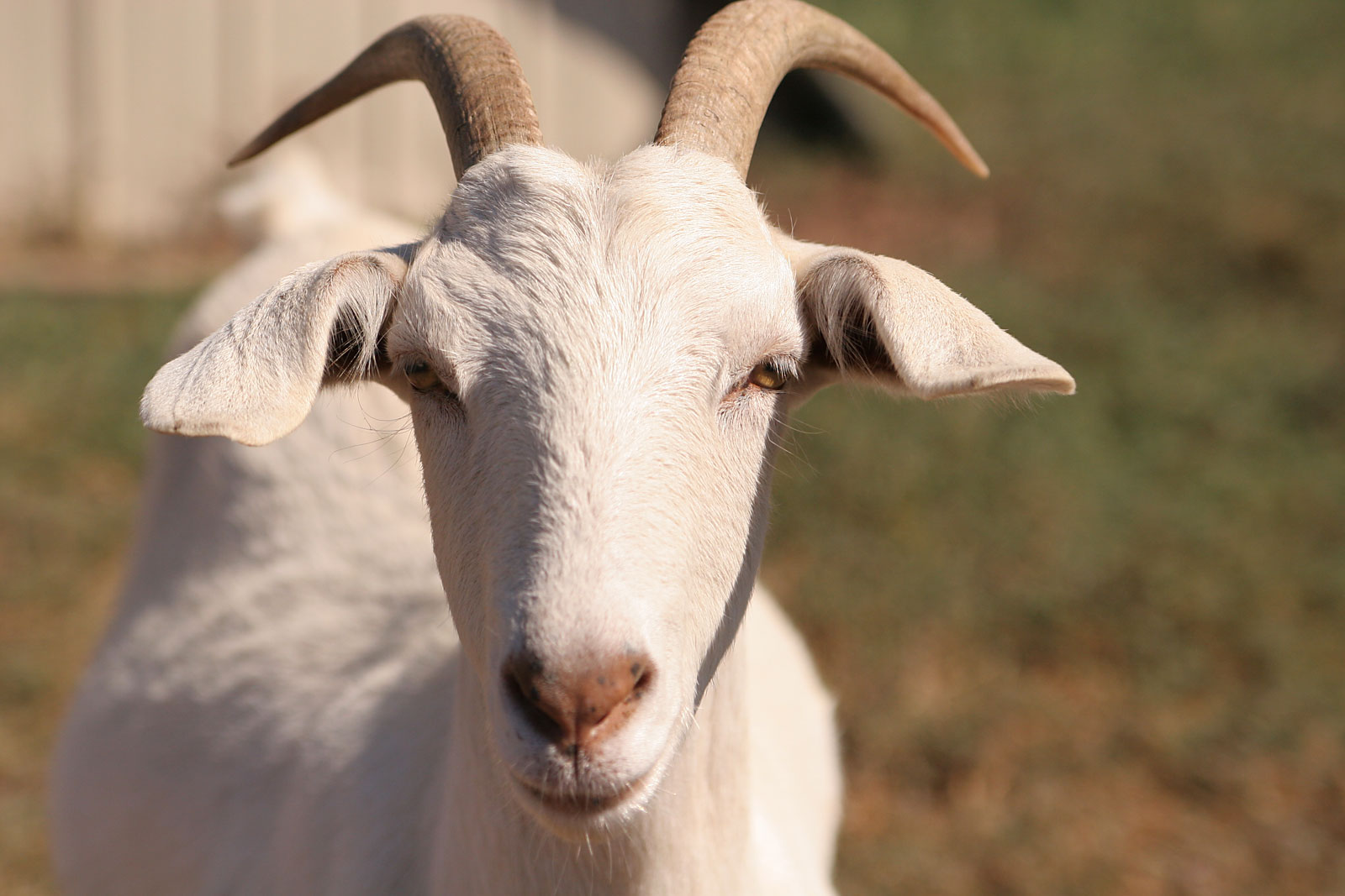 White goat